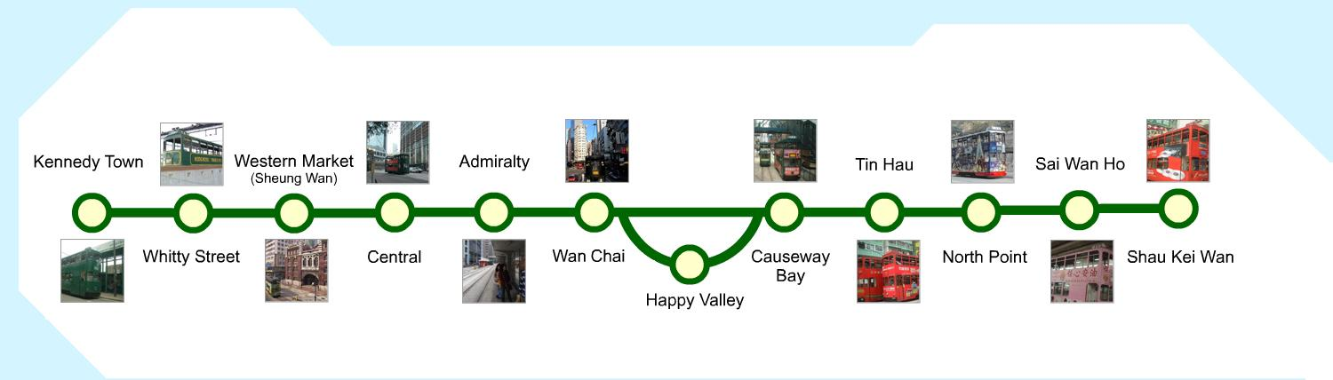 Route map of the Hong Kong Tramways, which run along the northern shore of Hong Kong Island, Hong Kong, with a loop in Happy Valley.